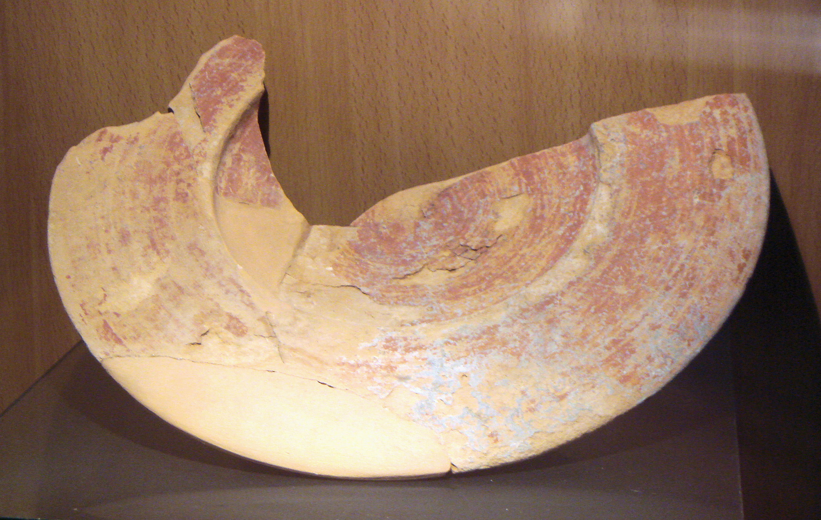 Phenician_plate_with_red_slip_7th_century_BCE_excavated_in_Mogador_island.